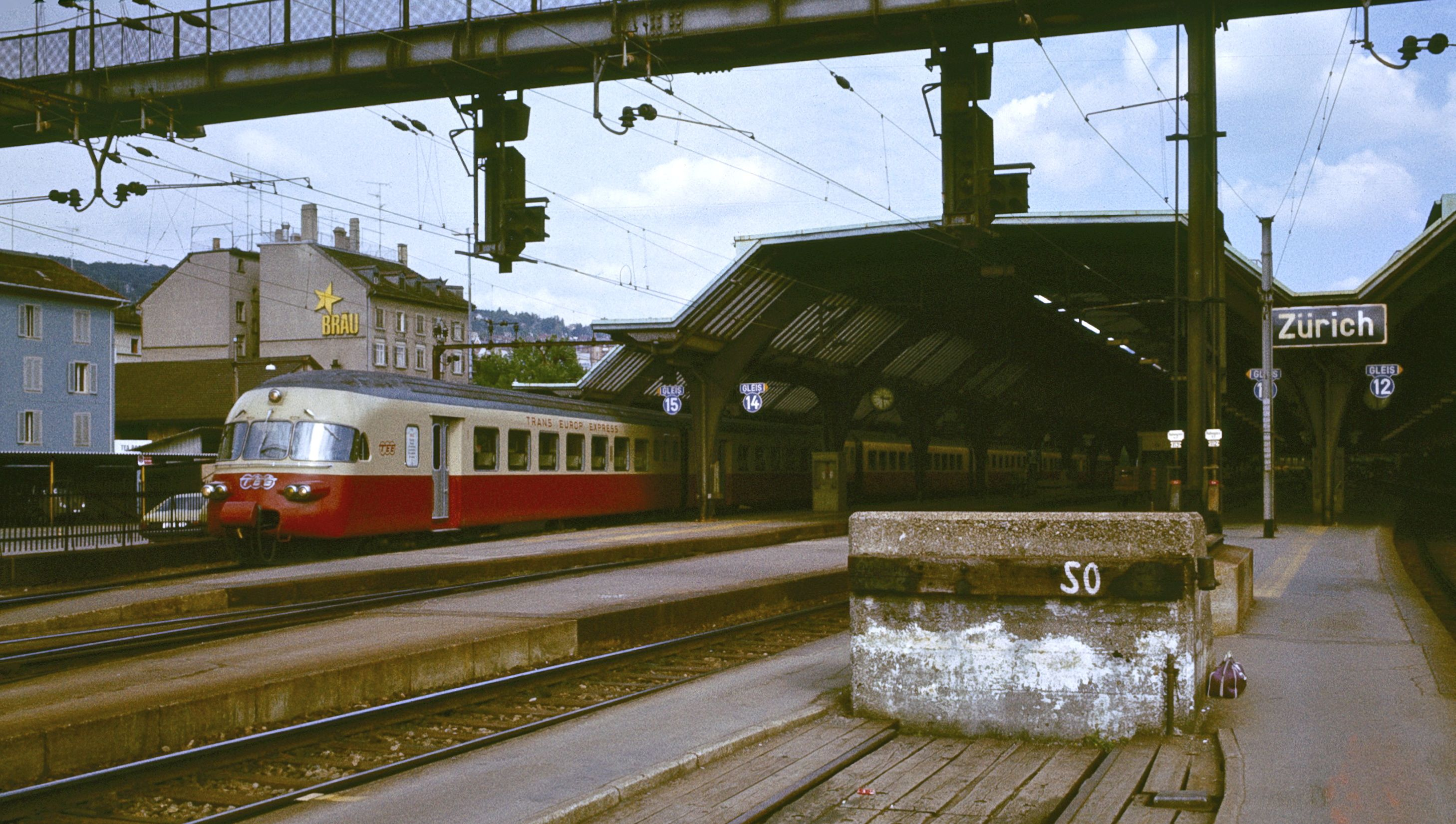 The Trans Europ Express train Iris starting to depart Zürich Hbf. (main station) for Brussels. The train is a type RAe TEE II quadruple-voltage trainset, built in 1961.